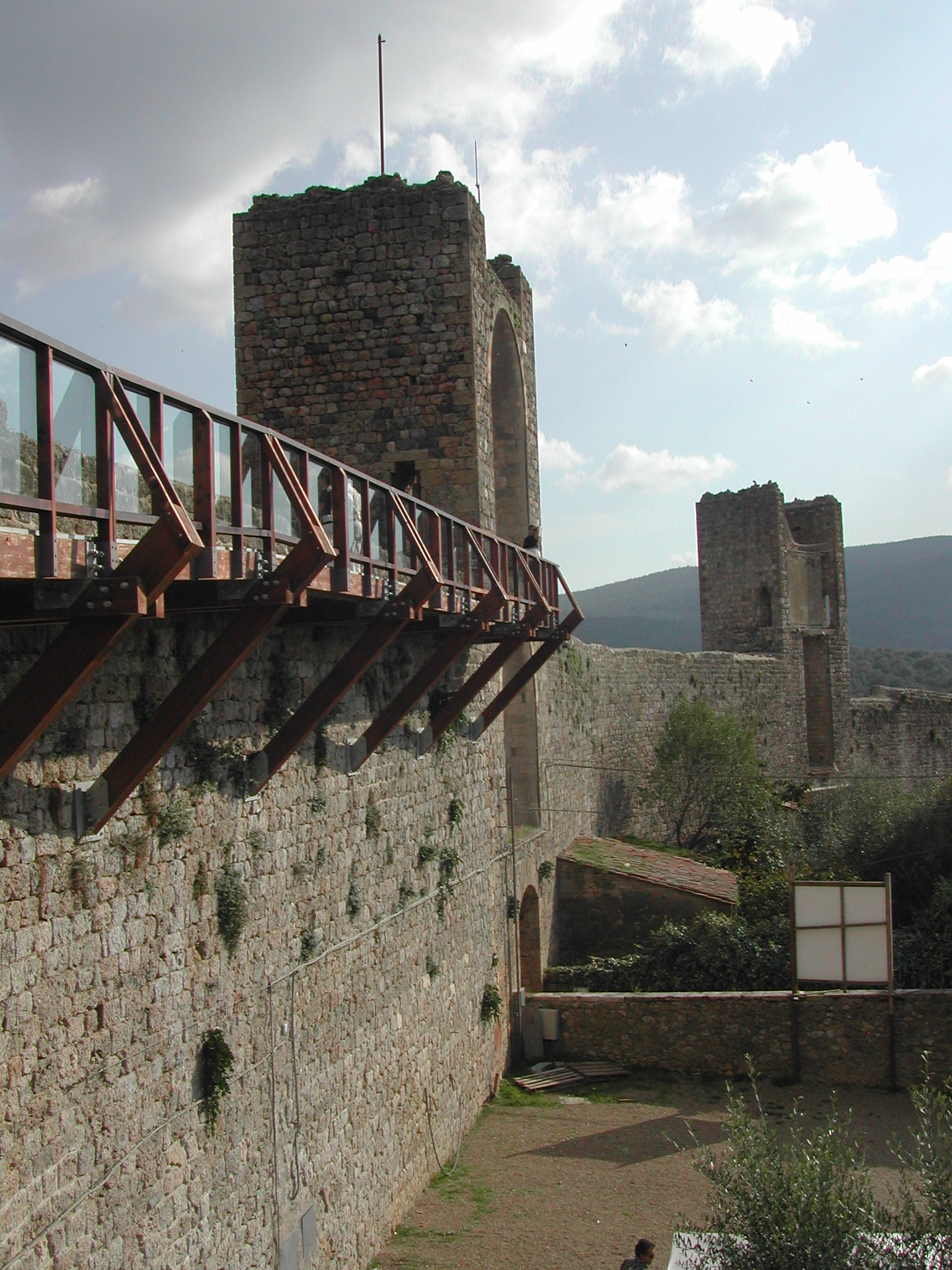 Monteriggioni city walls